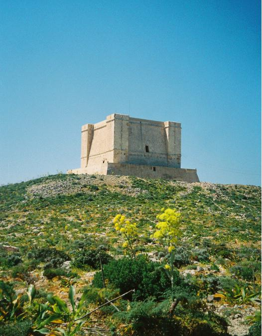 Tower of Comino Island Malta This media is about Maltese cultural property with inventory number 31.